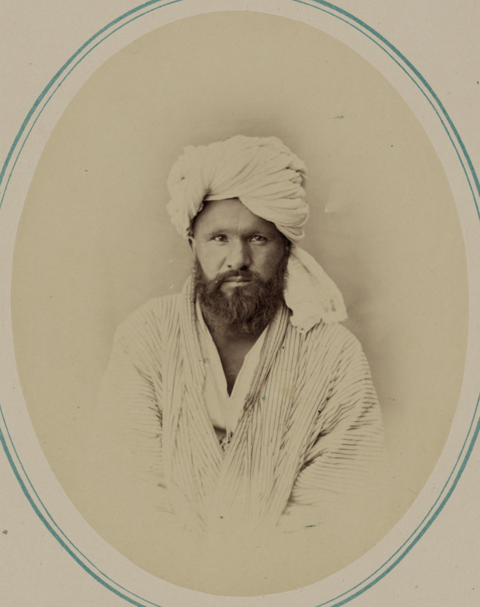 Types of nationalities in the Turkestan krai. Sarts (settled inhabitants [Russian]). Yusuf bai Photograph shows a head-and-shoulders portrait of a Sart man wearing a turban.